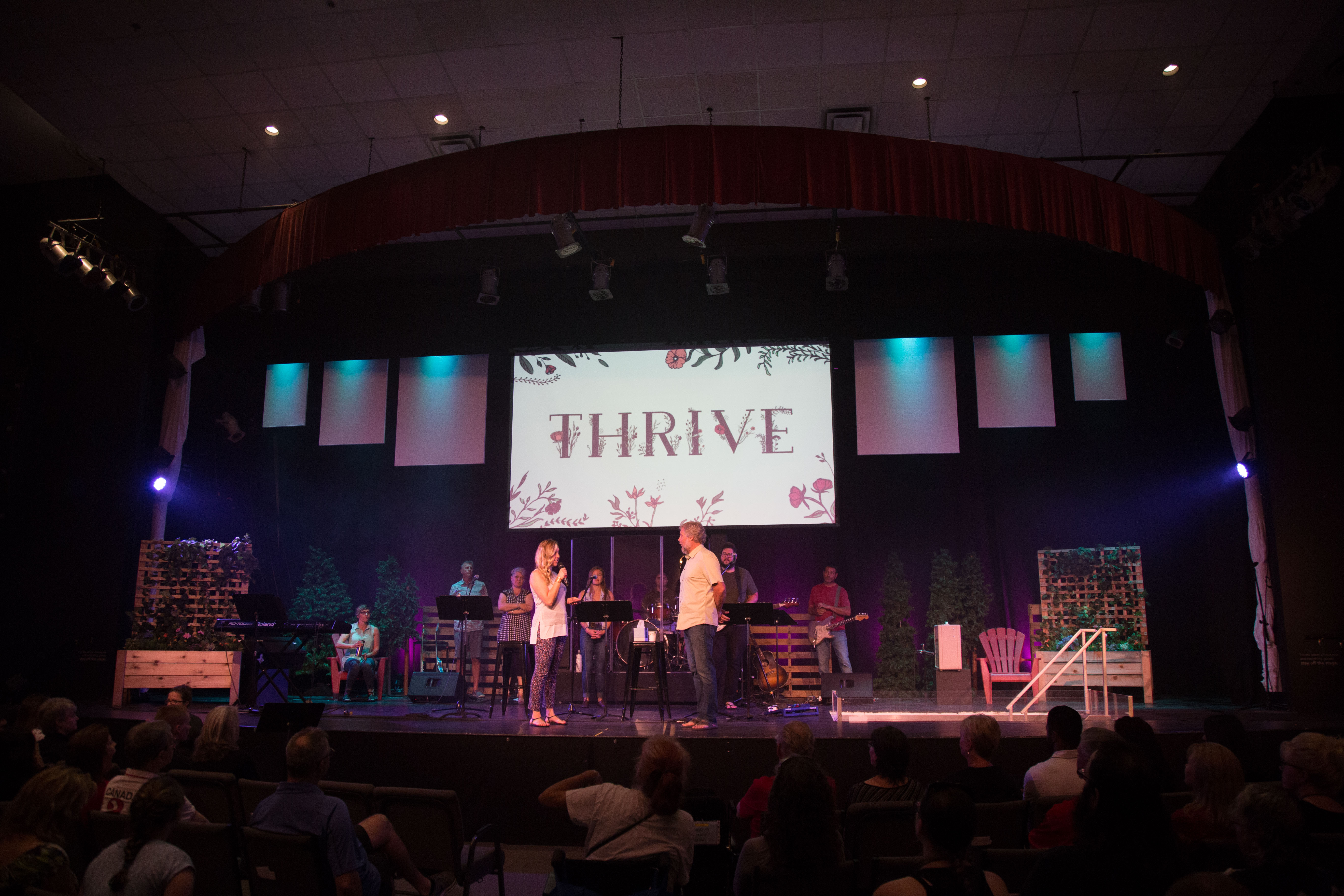 The stage of the Meeting Place Church